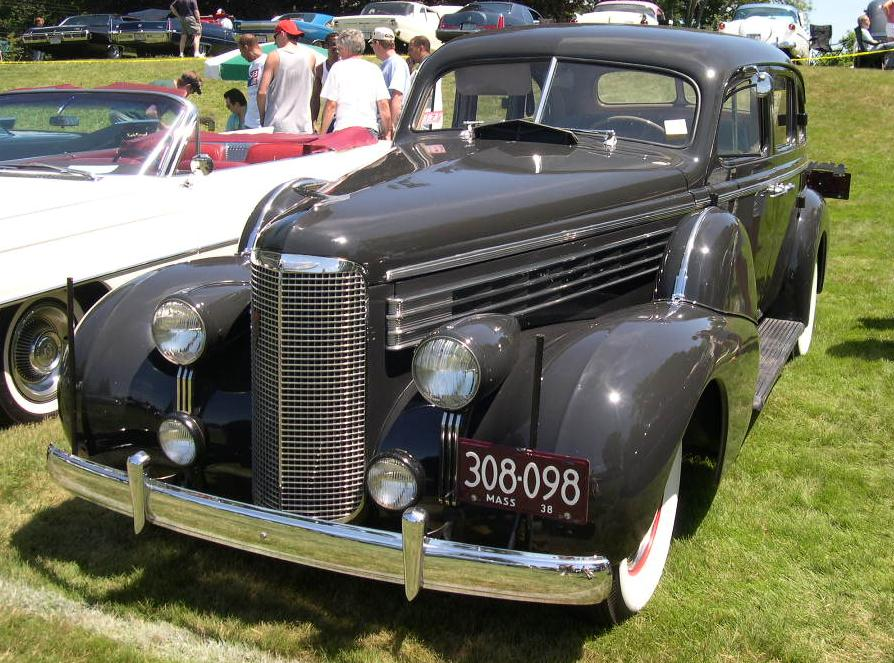 LaSalle 1938 Model 5019 Four-Door Touring Sedan